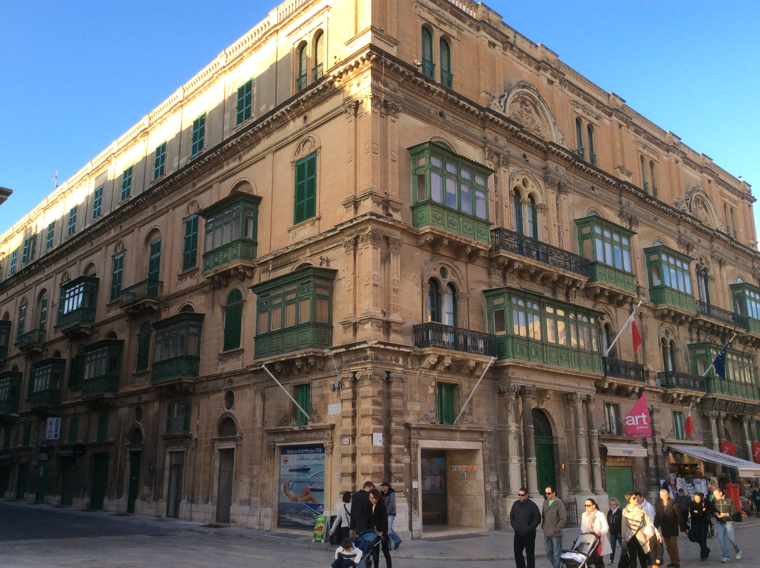 Palazzo Ferreria